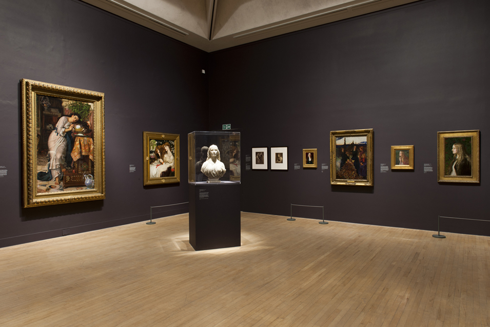 Installation view, my photo